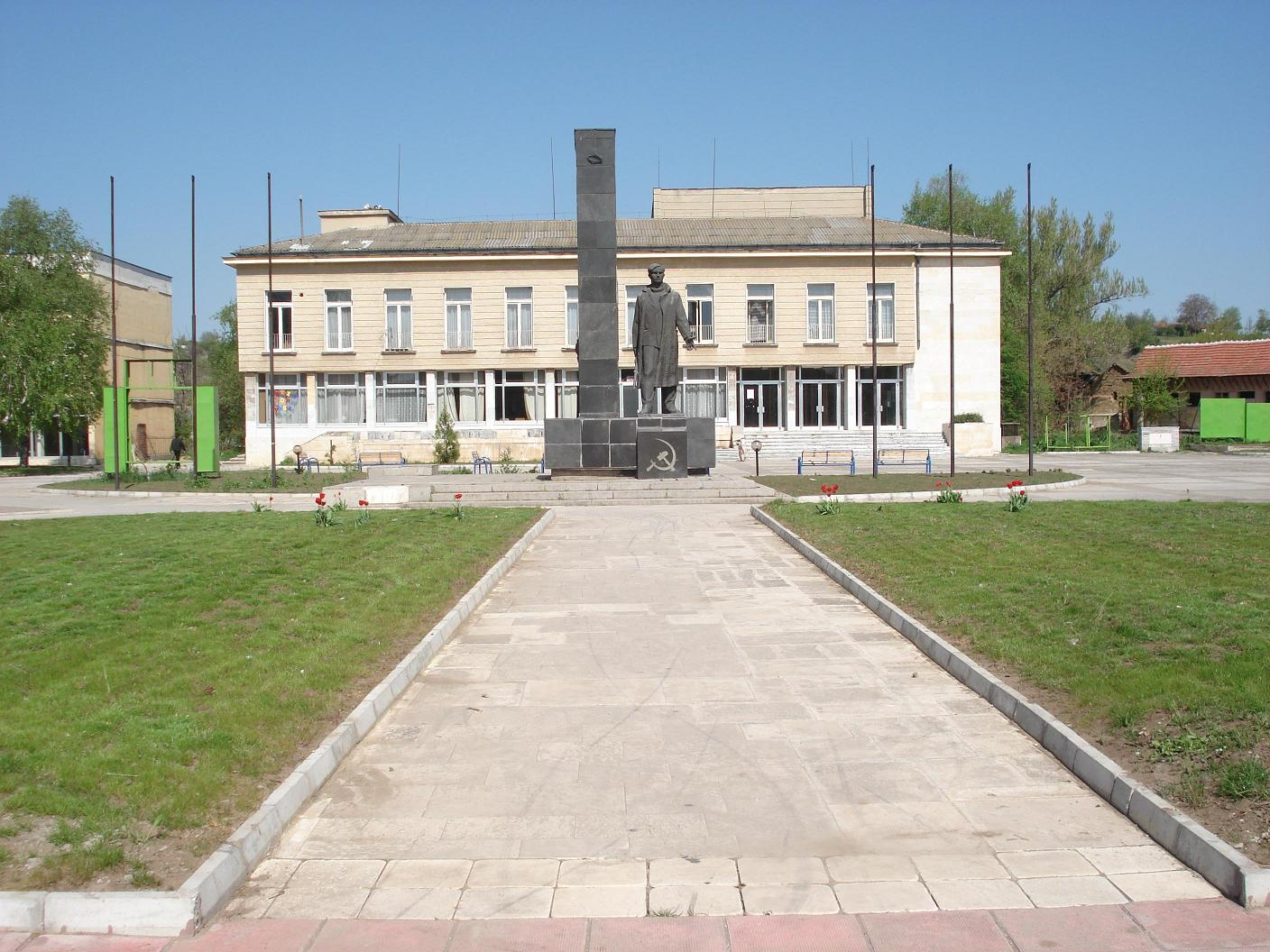 Center of Hayredin, Vraca, Bulgaria